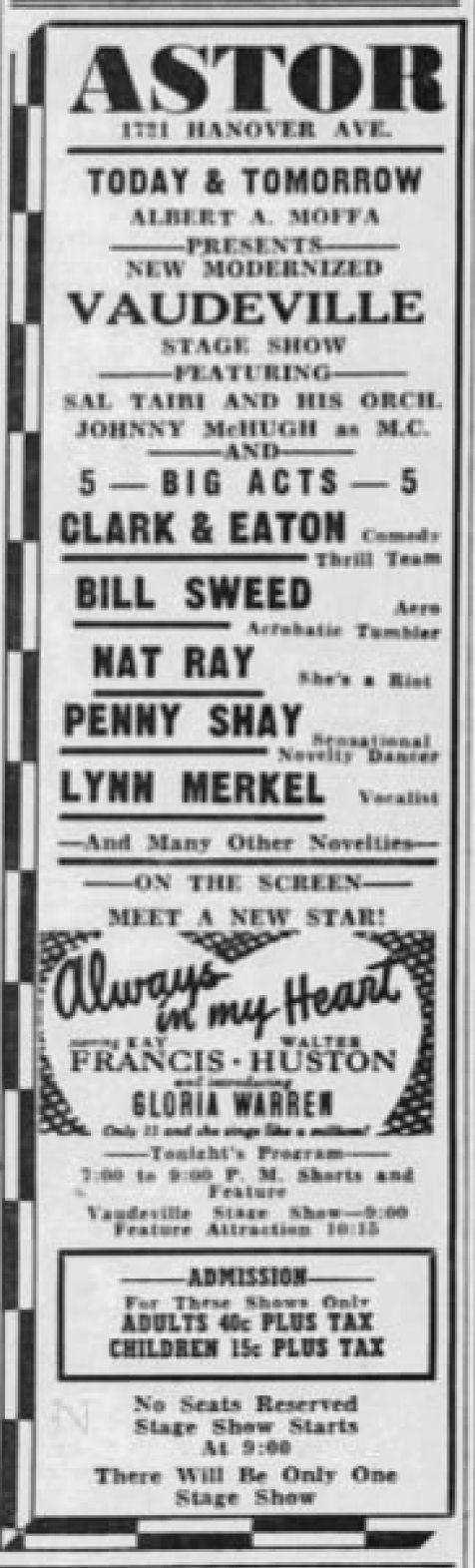 Astor Theatre advertisement for the film Always in My Heart (1942) 28 Oct. 1942 Morning Call, Allentown PA